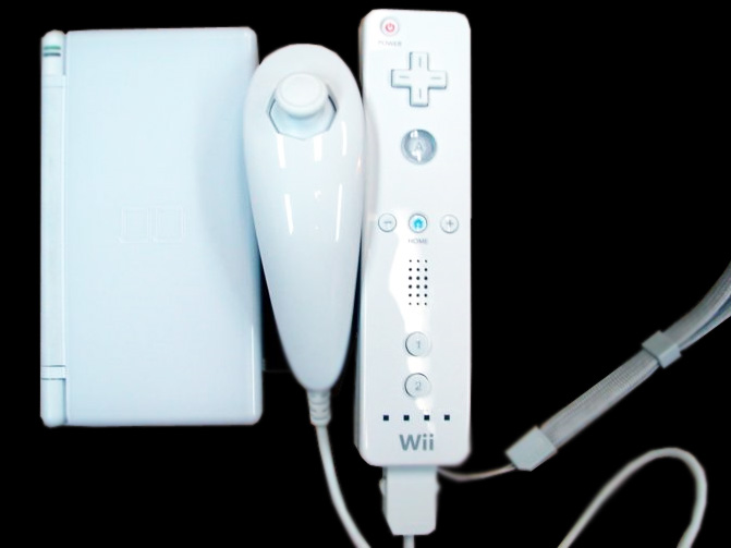 A shot comparing the Wii Remote and Nunchuk to the Nintendo DS Lite taken by Ccool2ax. I adjusted the colors to match better with Wii's bright white theme.